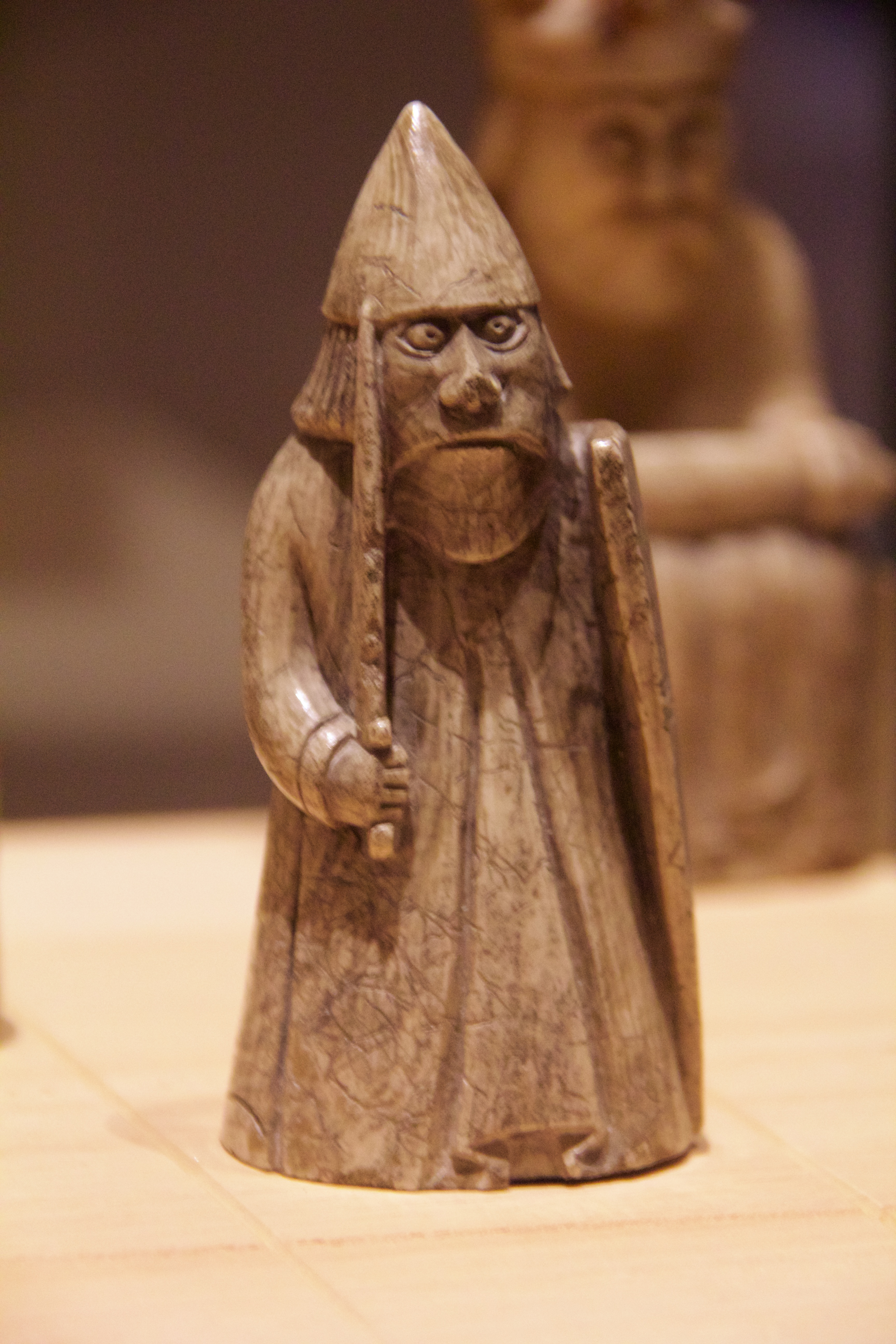 Chesspieces from Uig, Lewis, found in 1831. H.NS 19-23, H.NS25-9. At the National Museum of Scotland, Edinburgh.